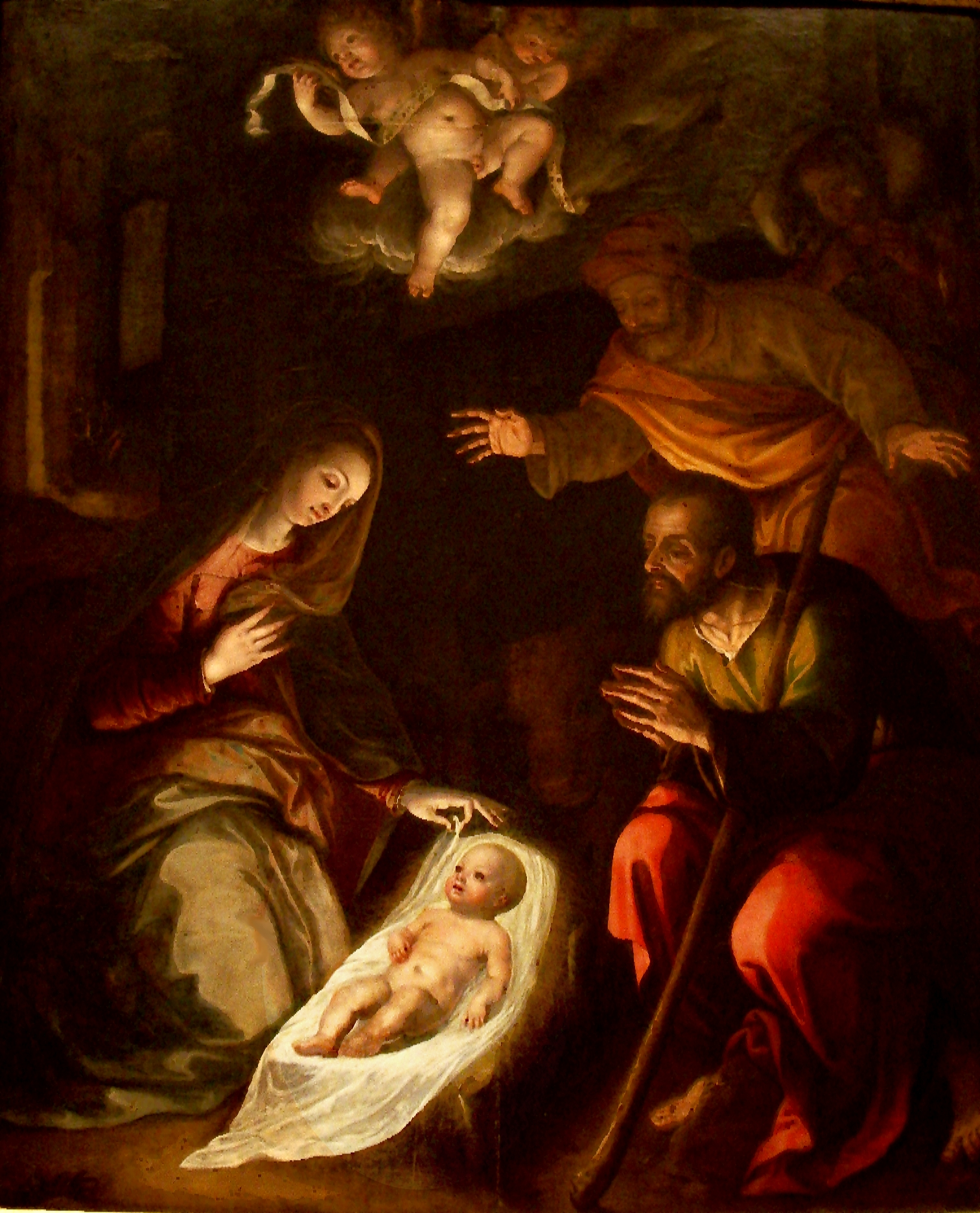 The Adoration of the Shepherds